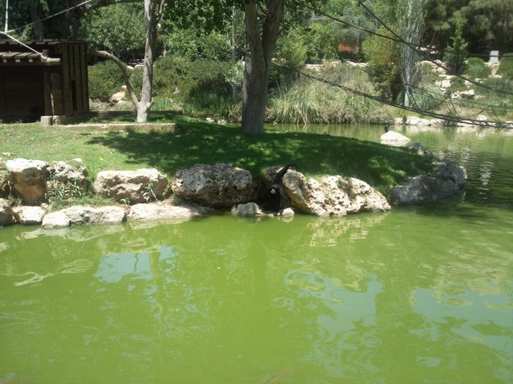 zoo , Geography of Israel